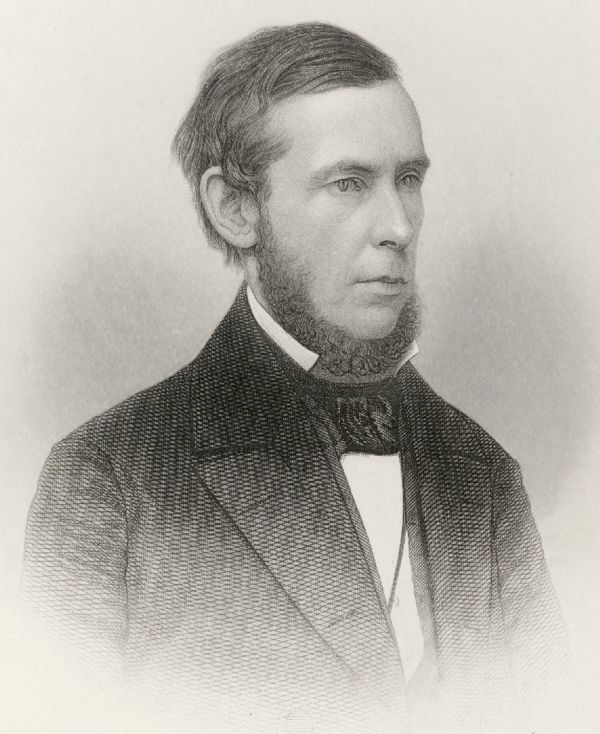 Portrait of the Rev William Henry Milburn, former Chaplain of the U.S. House of Representatives, published in 1858: "The pioneer preacher, or, Rifle, axe, and saddle-bags, and other lectures."